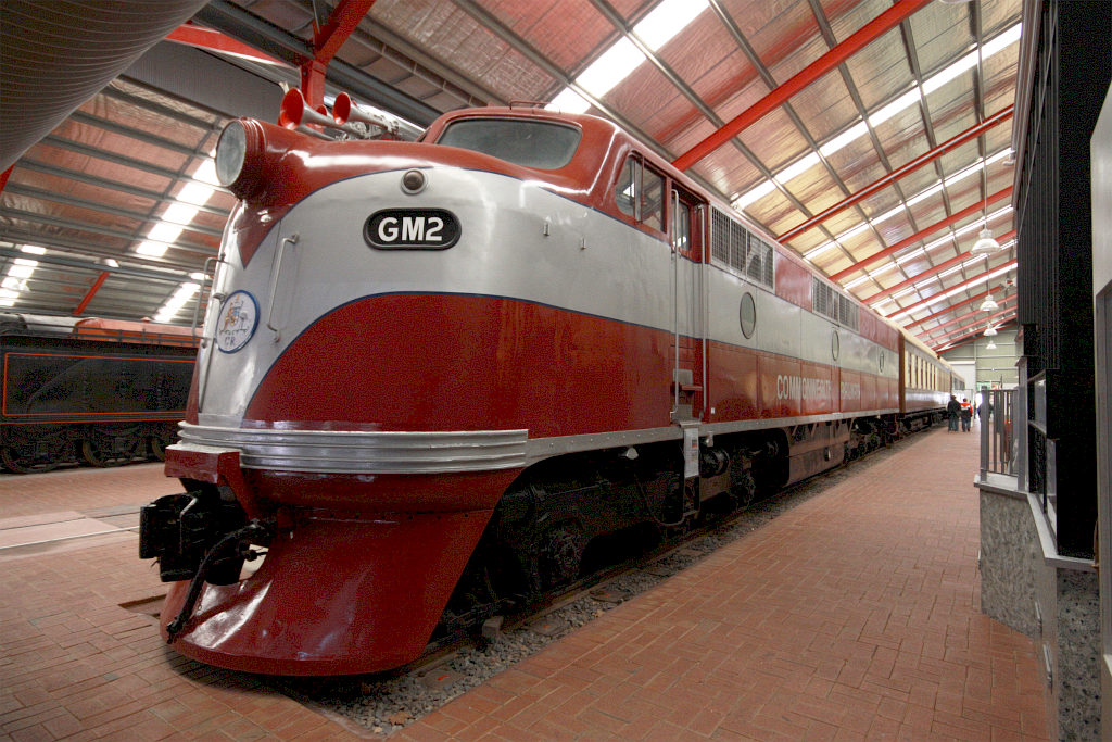 GM class GM2 in the main exhibition hall at the National Railway Museum (Port Adelaide)